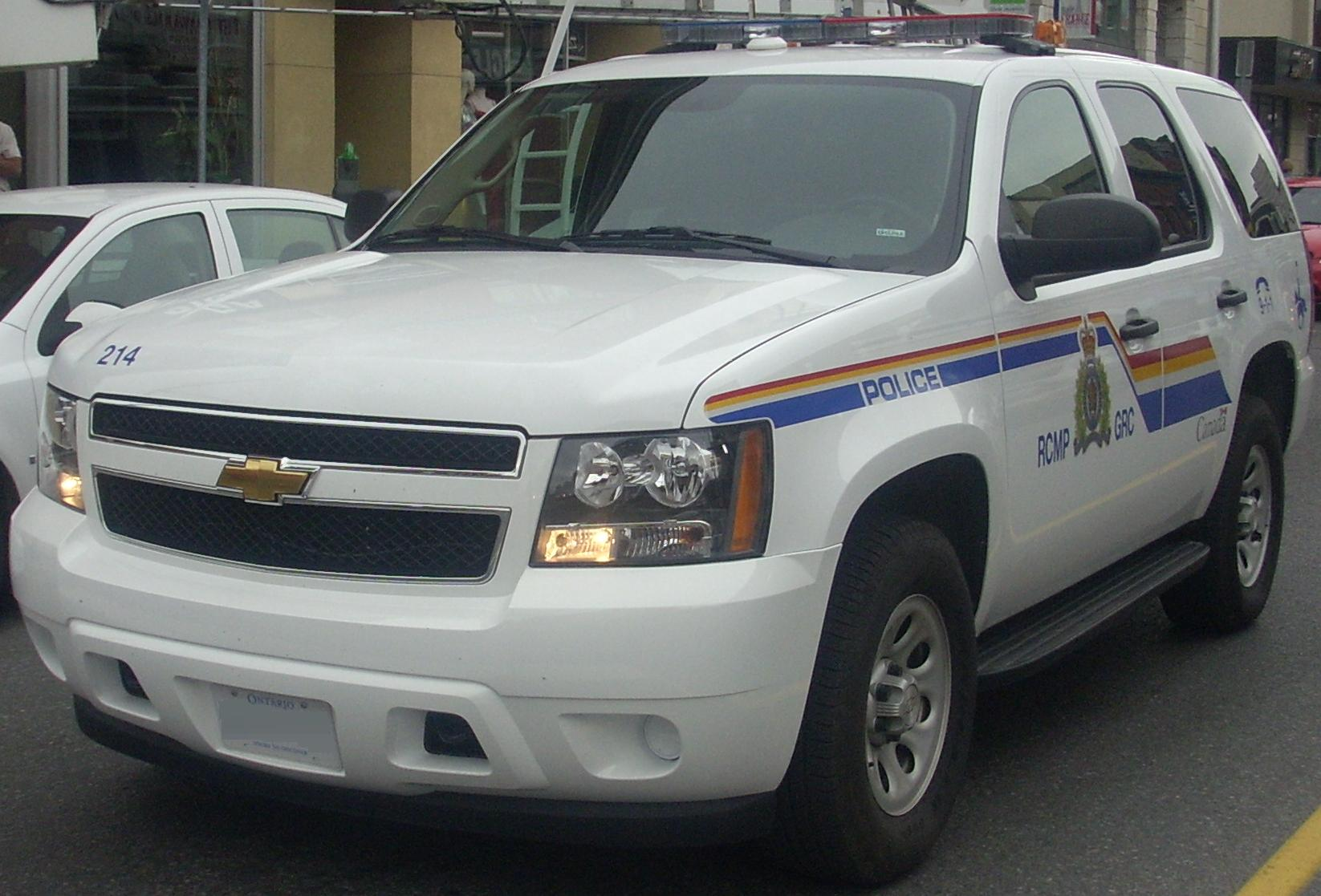 2007-2010 Chevrolet Tahoe photographed in Ottawa, Ontario, Canada at the Byward Market Auto Classic 2009.